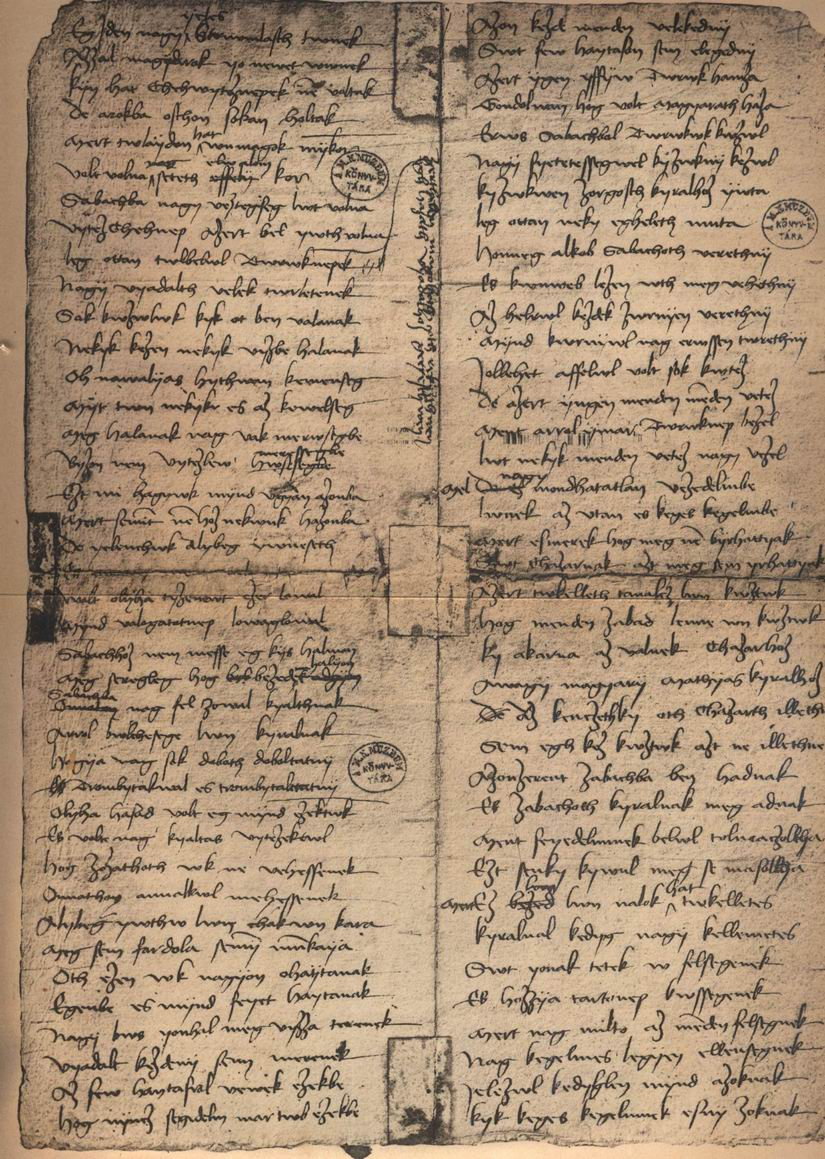 A page from the Hungarian manuscript of "The Battle of Szabács" dating from the 15th century A Szabács viadala hátlapja